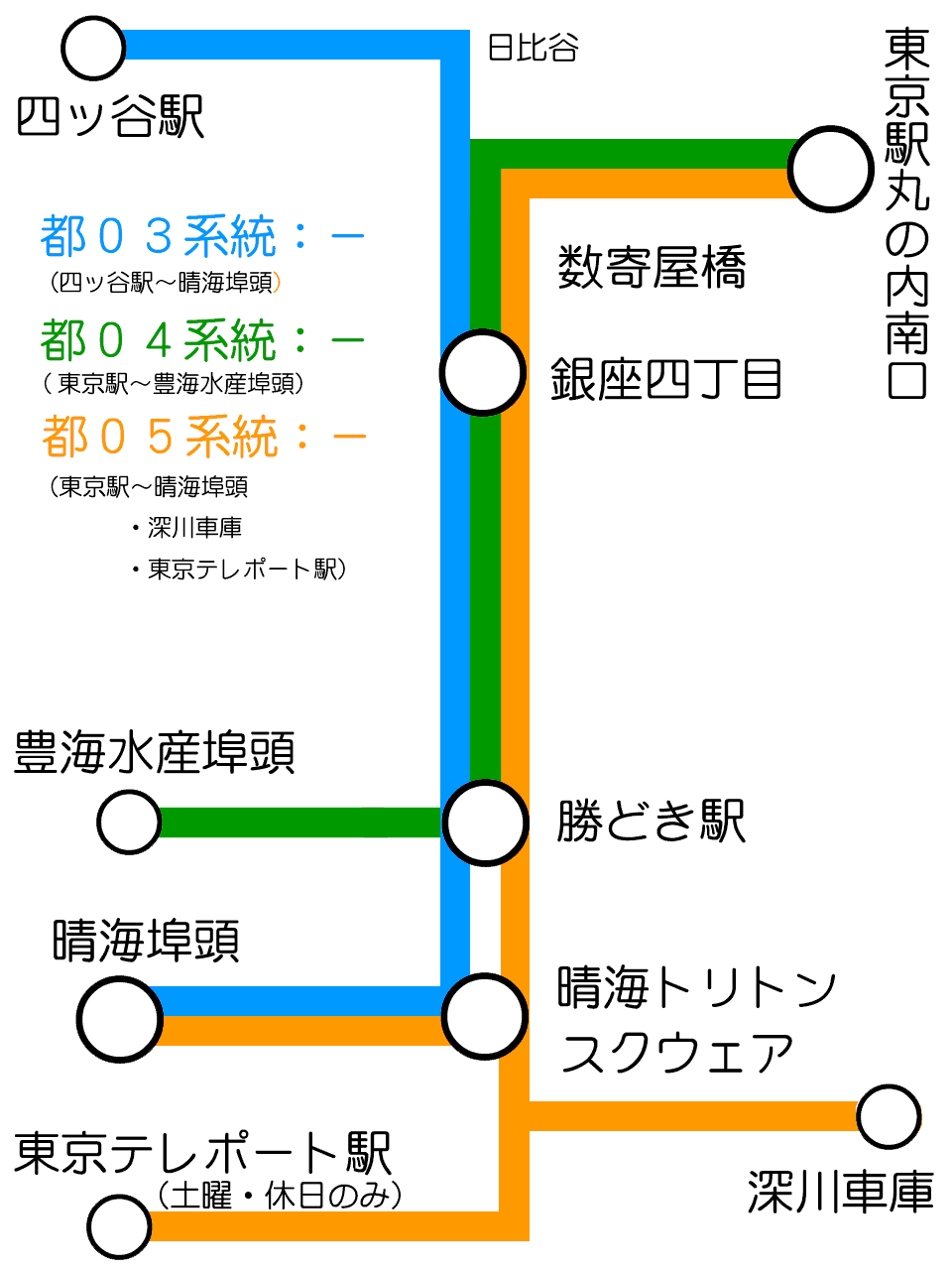 Tobus(Tokyo metropolitan Government municipal bus) route digest: "Green Arrows" series.